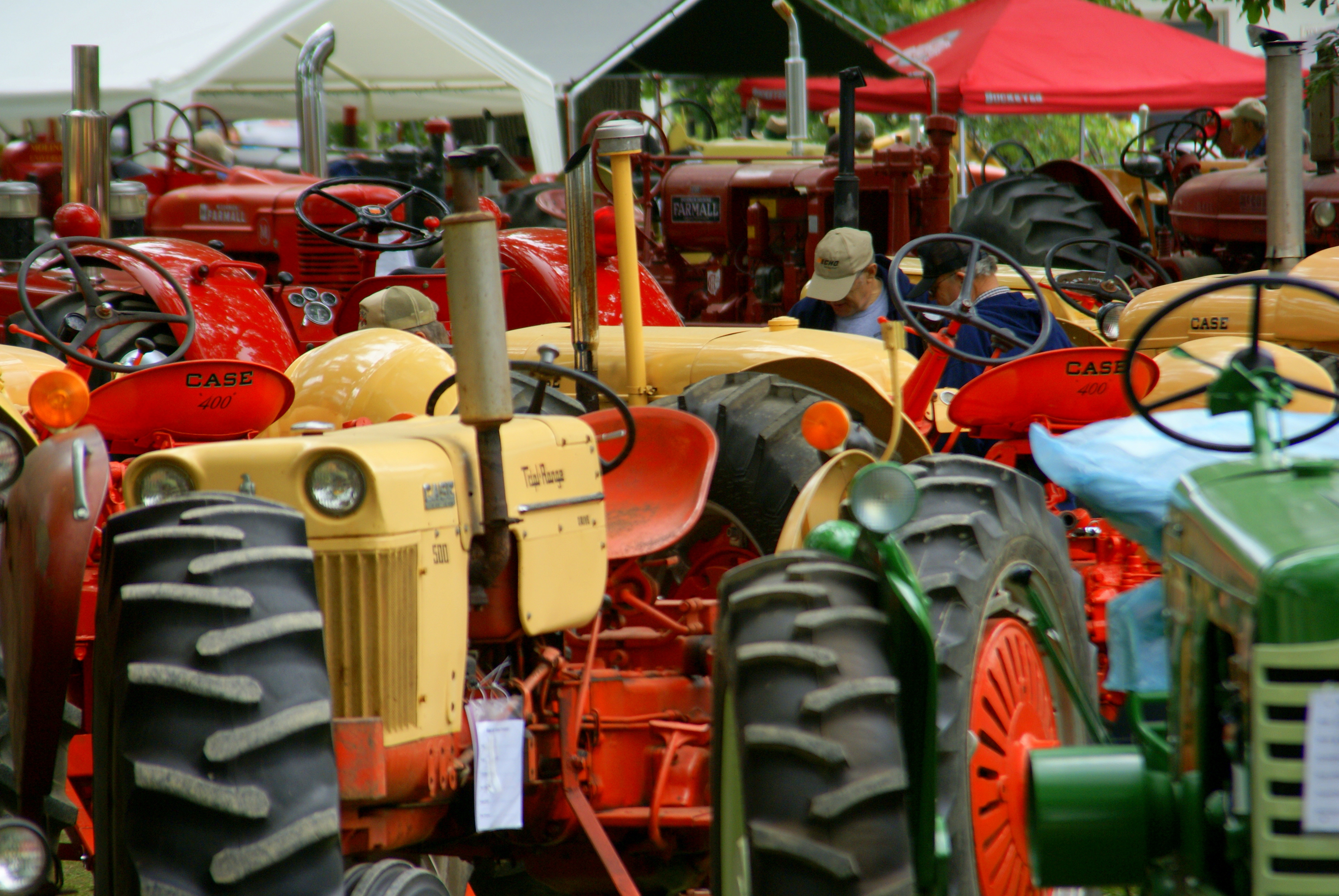 Tractors on display at 2009 Miami Valley Steam Threshers show at Pastime Park, Plain City, Ohio.